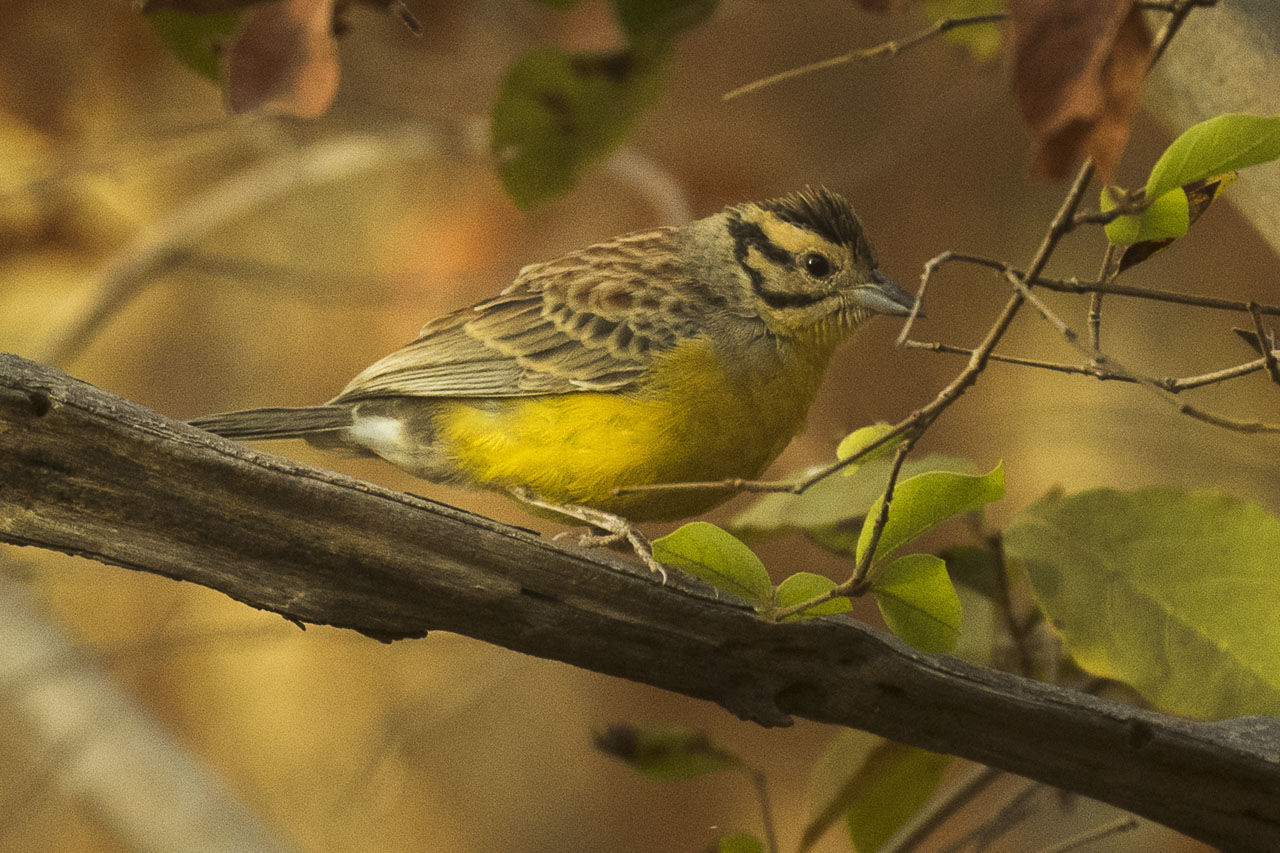 Brown-rumped Bunting - Gambia 17_CD5A1974